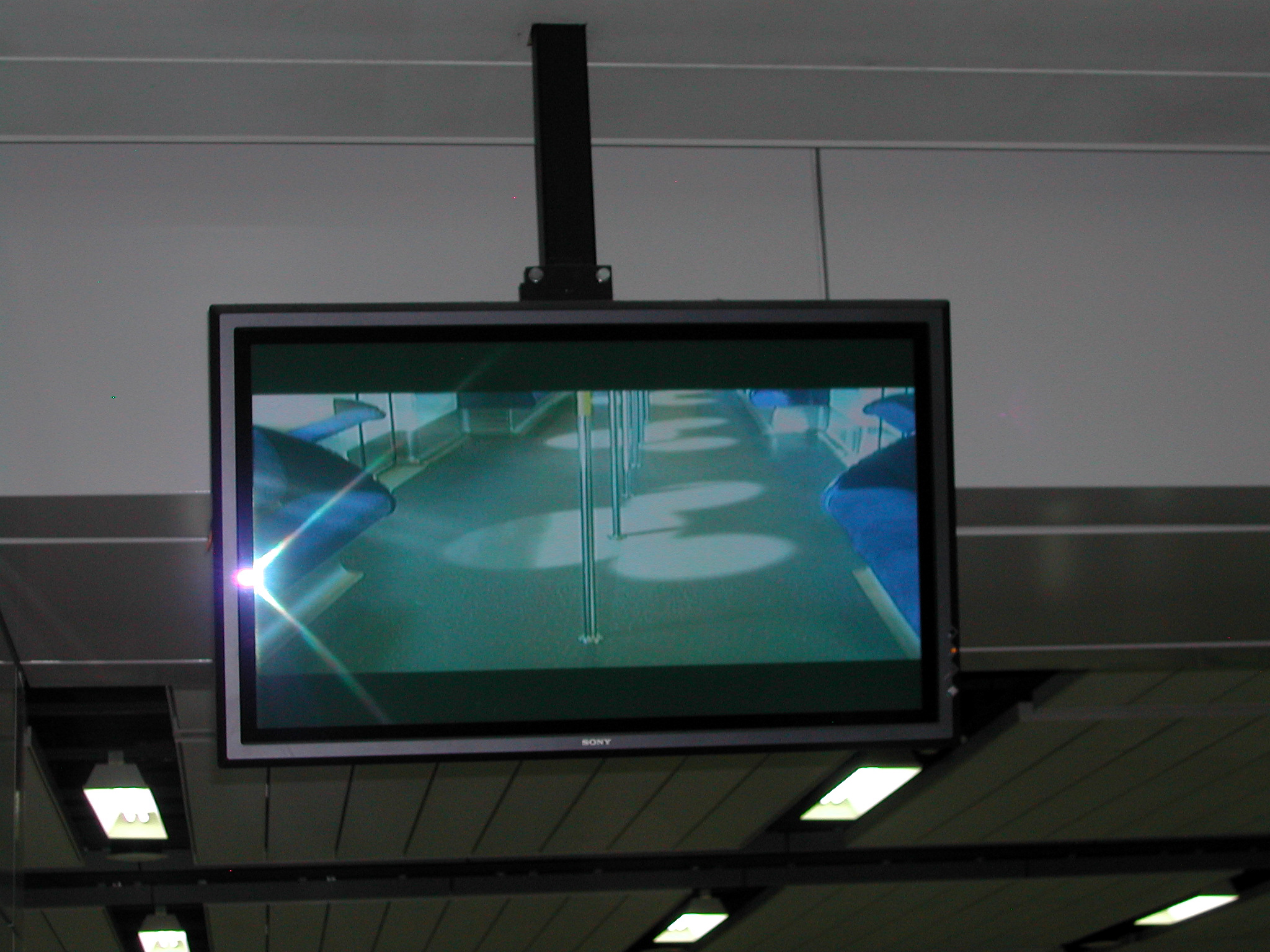 Passenger information display at an MTR station